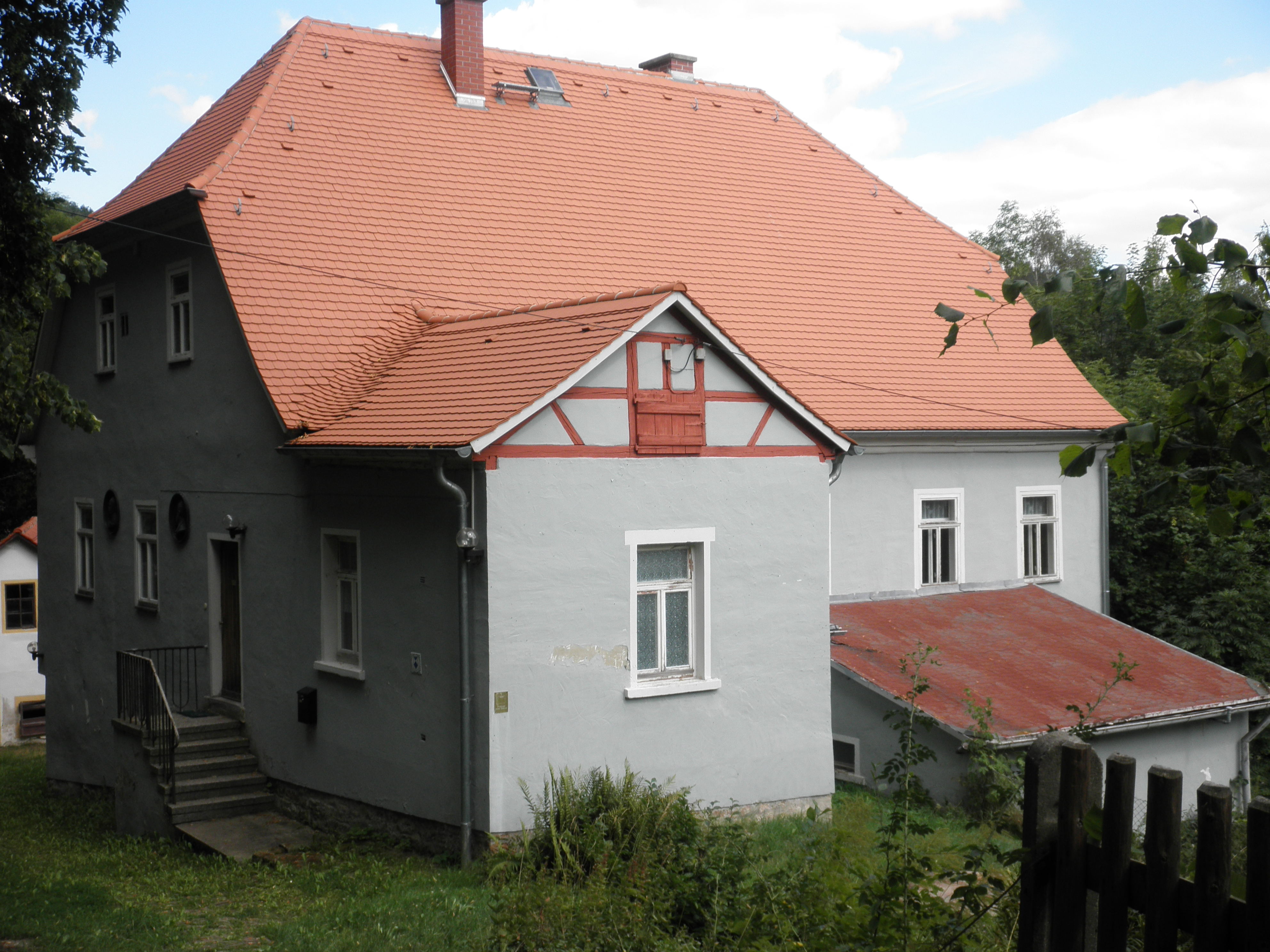 Parsonage in Renthendorf in Thuringia